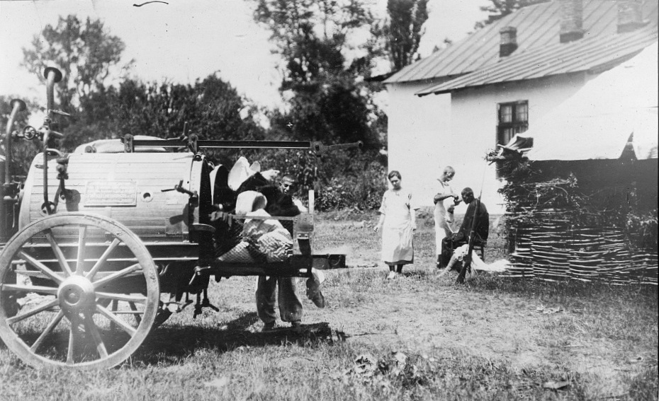 Delousing machines used in the Balkans. A piece of heavy artillery in the war against Typhus, Small pox and other diseases raging in the Balkans is the delousing sistern. Many of these machines have been brought to Roumania, Serbia and other countries in Eastern Europe by the American Red Cross. Many of the Diseases prevalent in the Balkans are due to lice and germs. The delousing machine is used to thoroughly disinfect clothing, bedding, etc. of victims. An appreciable decrease in the number of cases have been recorded wherever the American delouser was put into use.